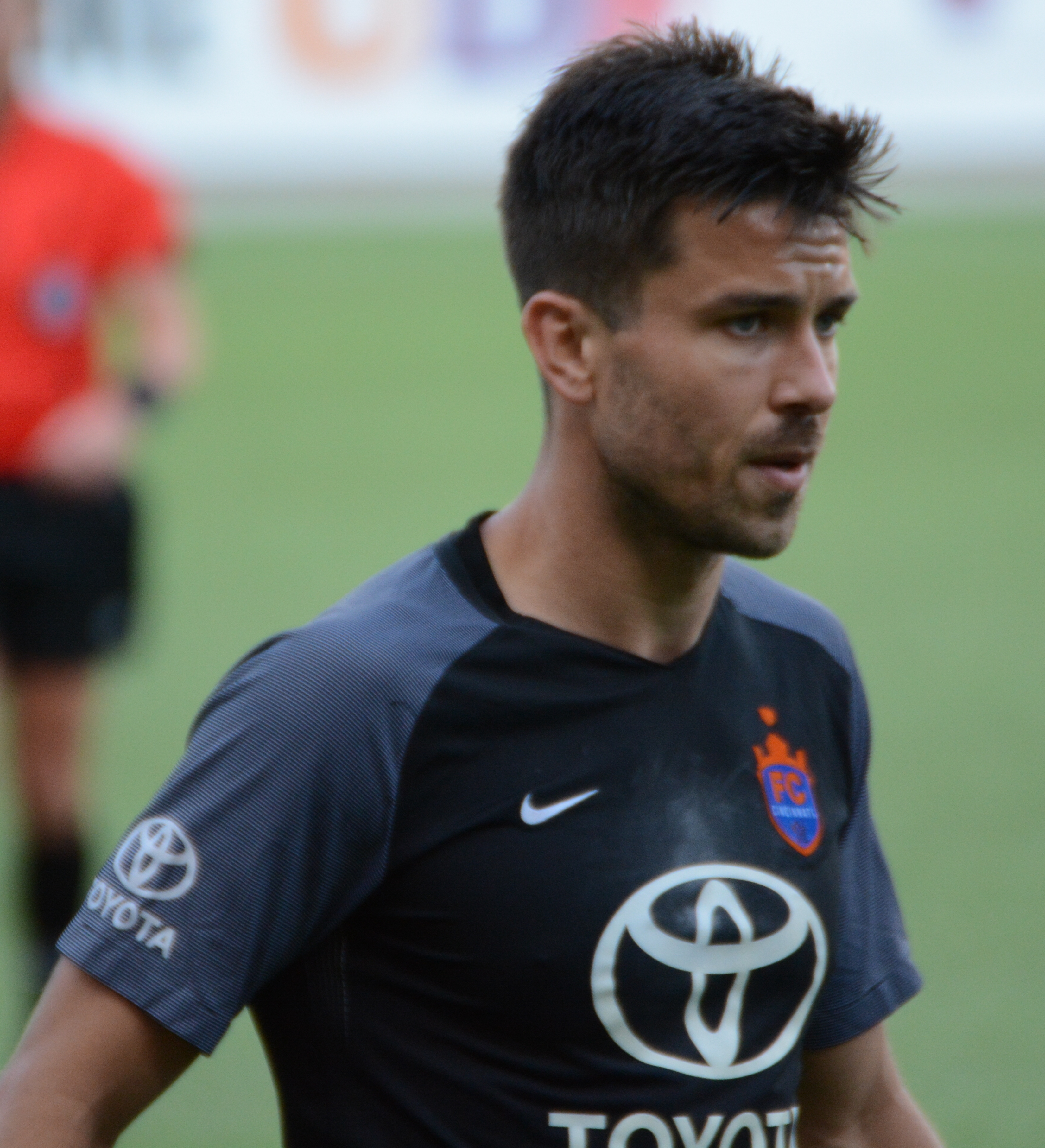 Andrew Wiedeman Taken at a Lamar Hunt U.S. Open Cup match between FC Cincinnati and AFC Cleveland at Nippert Stadium in Cincinnati, Ohio on May 17, 2017.